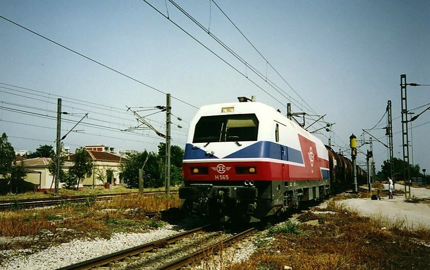 Greek railways Siemens class 121 electric loco on head of a freight train is passing through Thessaloniki's freight yard